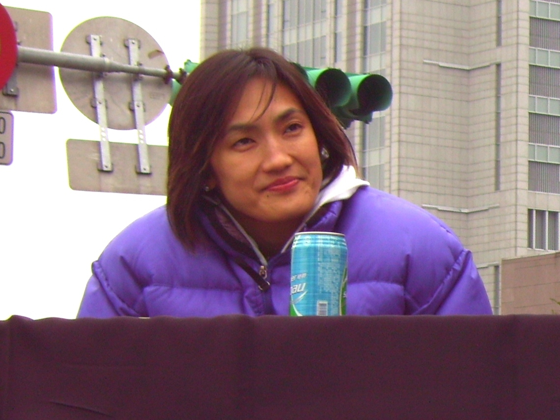 Nike 5K Run 2007: Famous woman basketball player Rosa W. C. Chien.